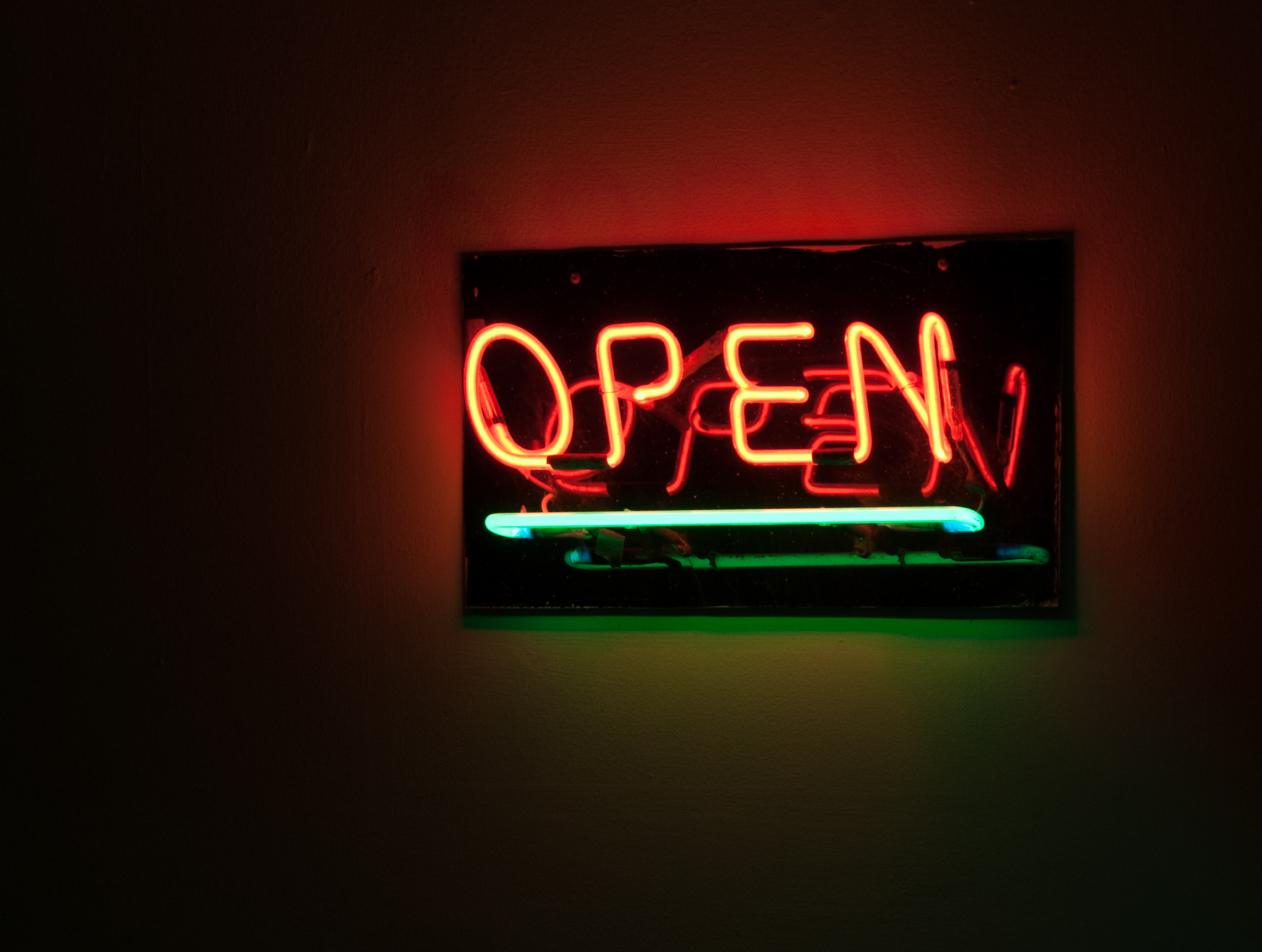 Open external signage, outside Kepen, instead of selling natural tea tram Maracaibo